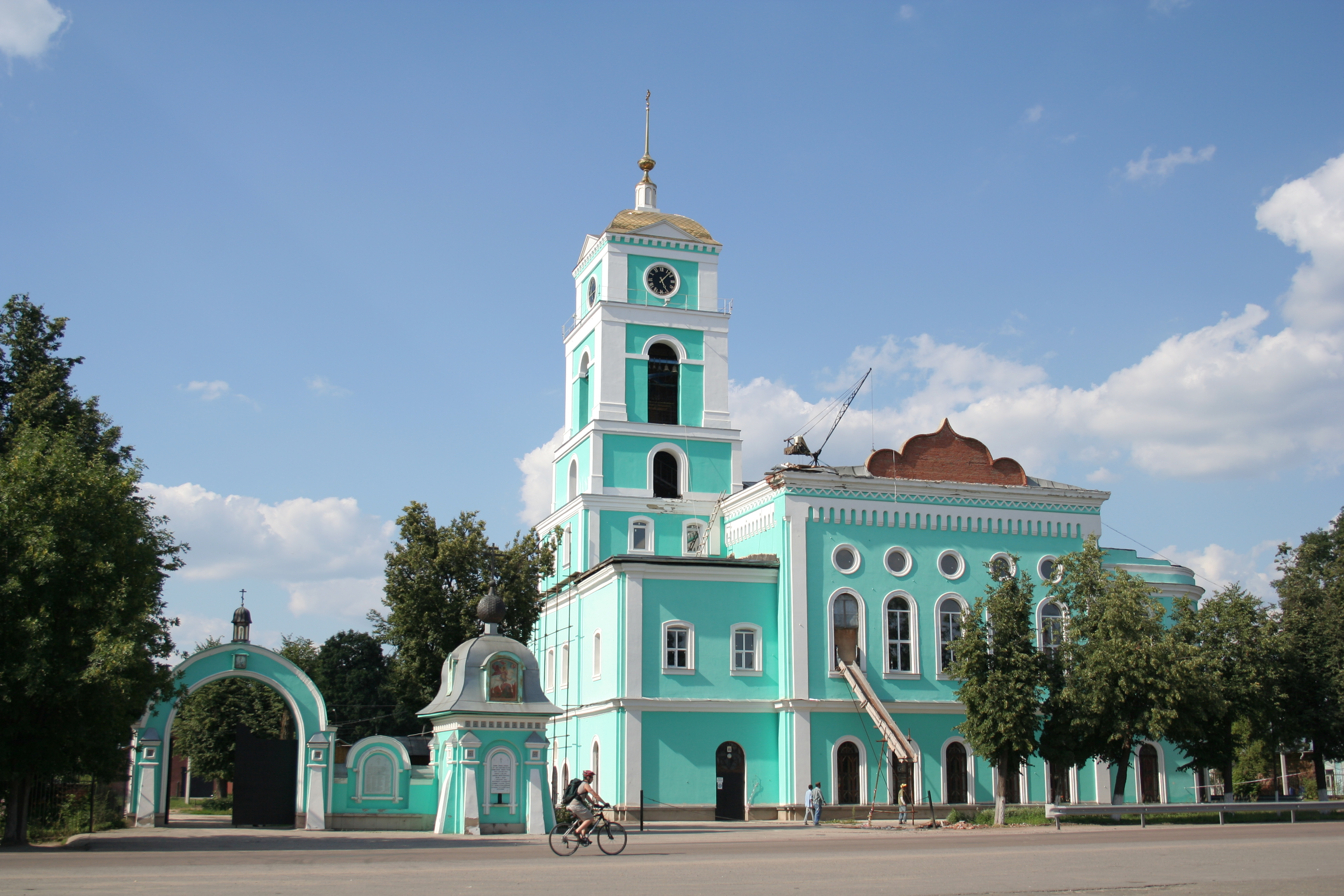 Church of the Trinity in Staraya Kupavna, Moscow Oblast, Russia